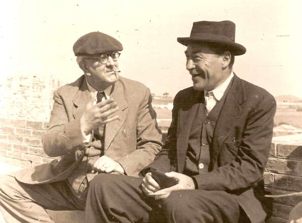 Photo de Manuel Brunet and Josep Pla (catalan writers)